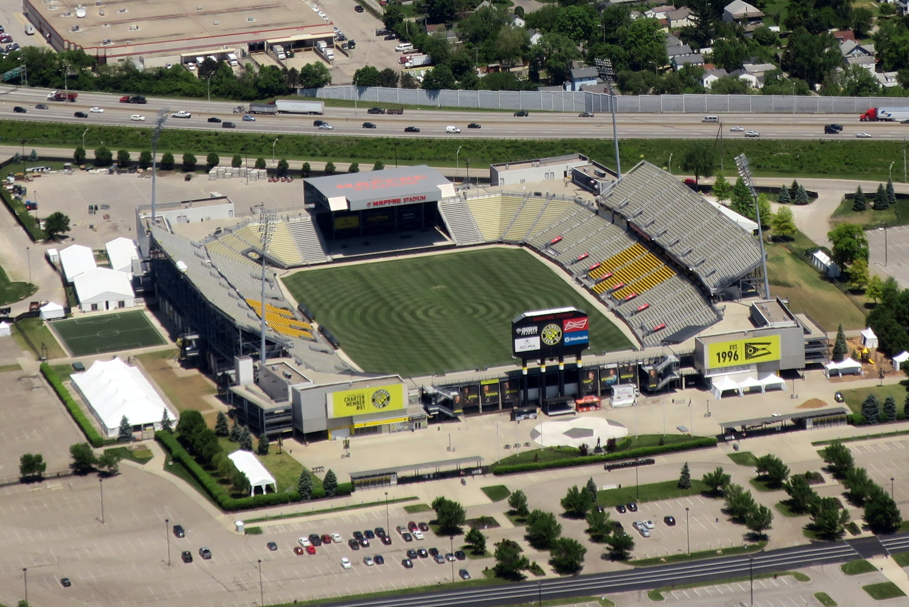 Mapfre Stadium (Columbus, Ohio) - aerial photo